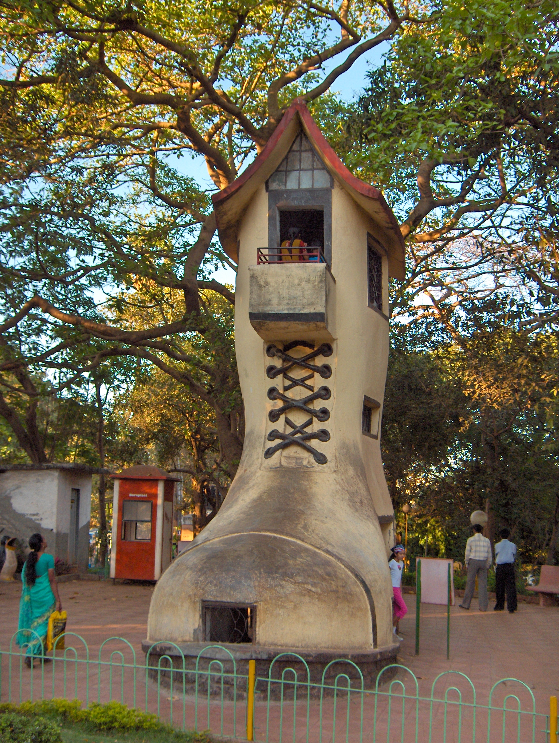 Old Woman's Shoe at the Hanging Gardens in Mumbai Photo taken by me, Nichalp on 4-Mar-2006